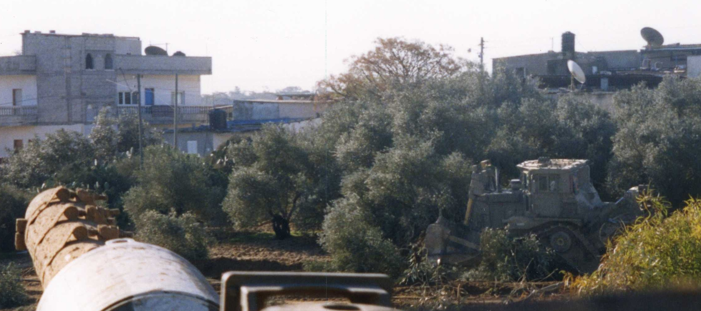 IDF Caterpillar D9 bulldozer working in Al-Bureij refugee camp, central Gaza Strip.